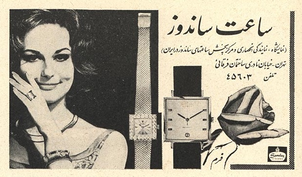 Sandoz watches - Magazine ad - Zan-e Rooz, Issue 181 - 31 August 1968